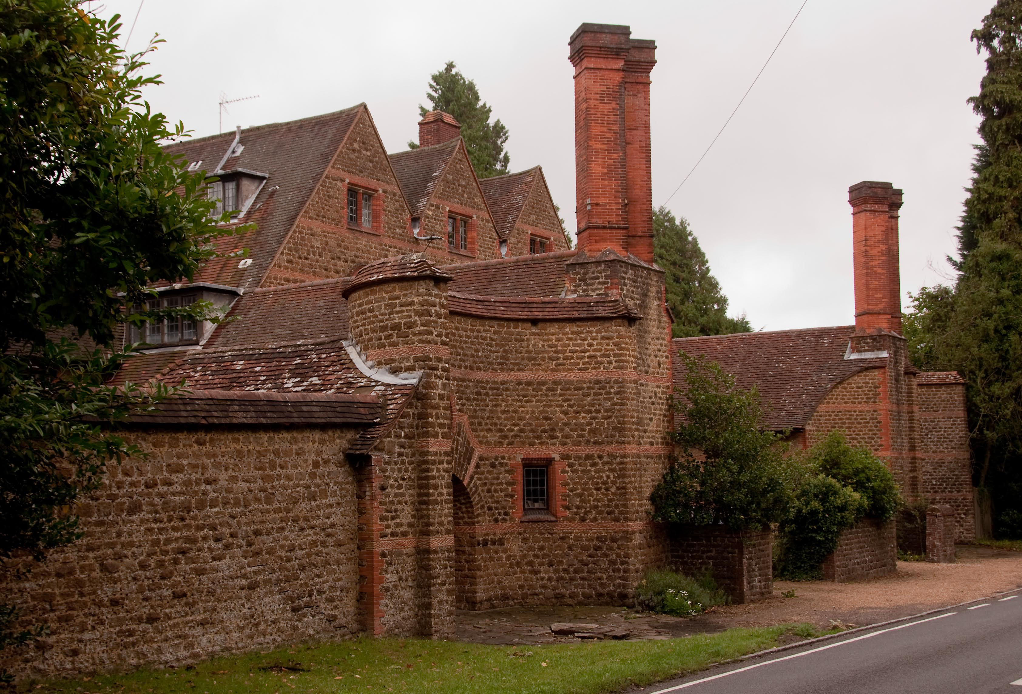 Tigbourne Court viewed looking East off the A283 road